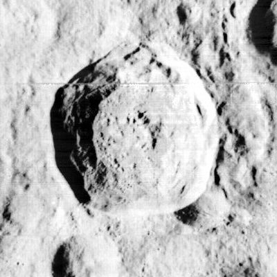 Crookes, on the far side of the moon.